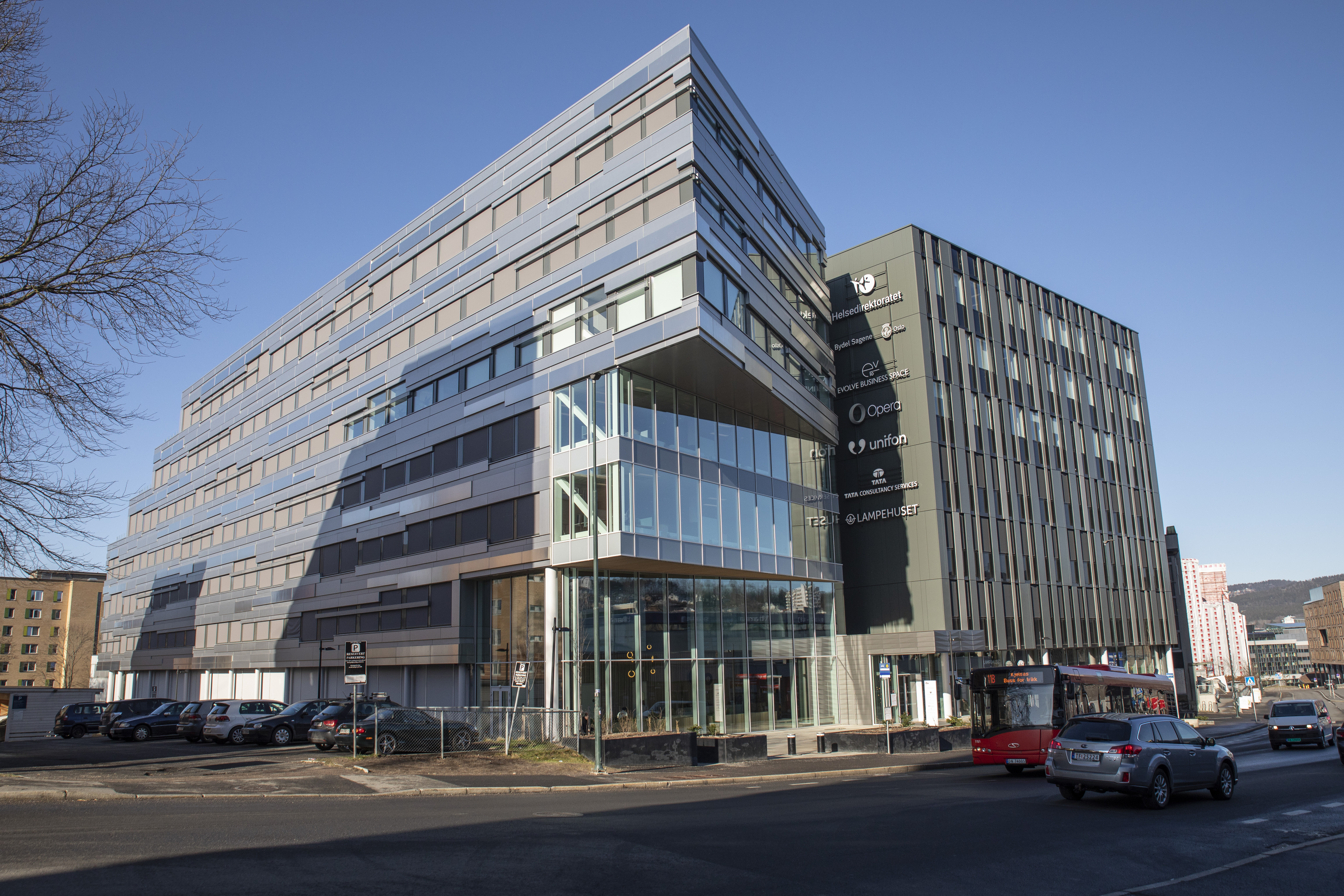 Helsedirektoratets hovedkontor i Vitaminveien 4 i Oslo.